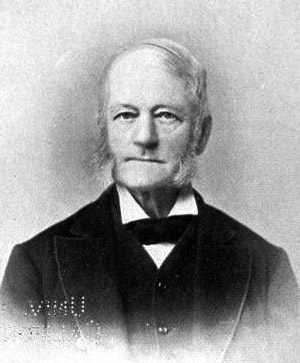 Portrait of American writer William Davis Gallagher (1808-1894). Cropped. The Magazine of Poetry and Literary Review, vol. III, no. 3 (July 1891): p. 278.